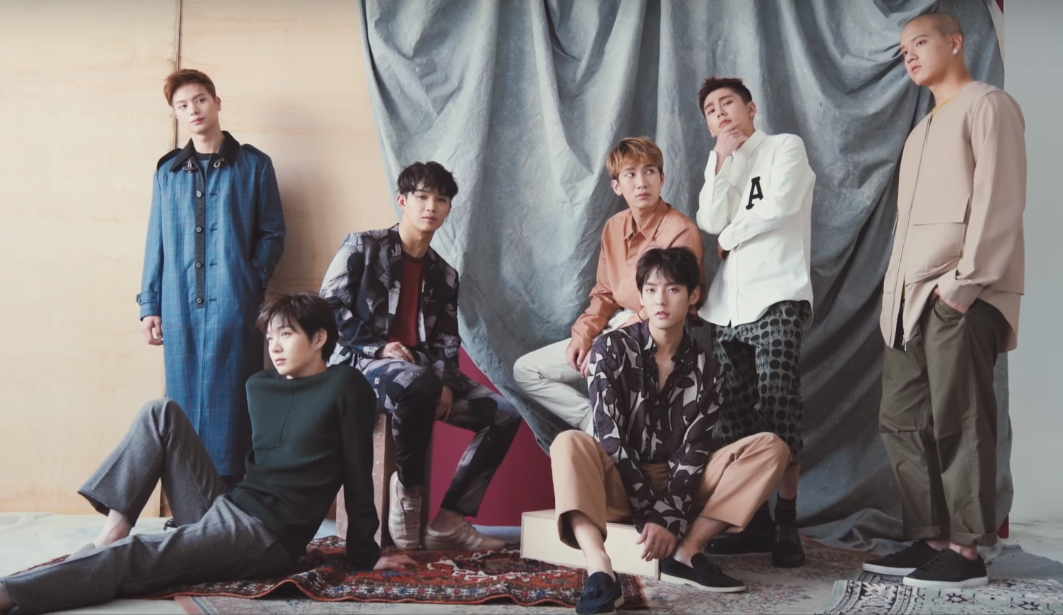 BTOB in Marie Claire Korea 2017